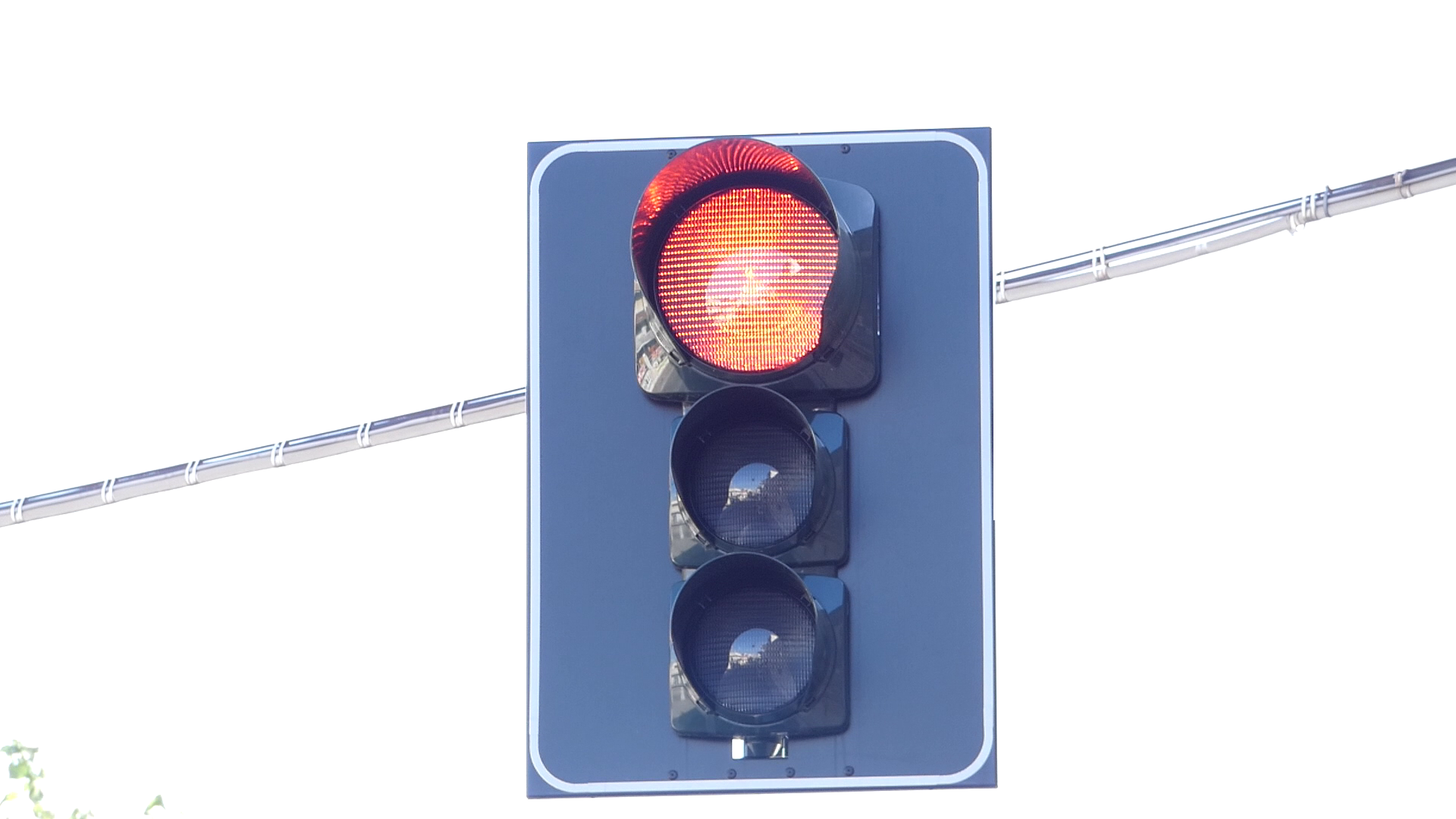 A smart traffic light in Grottaglie, Italy.